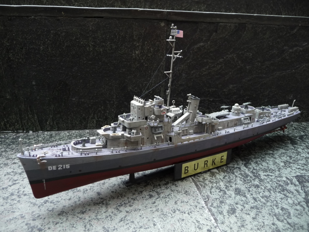 USS Burke